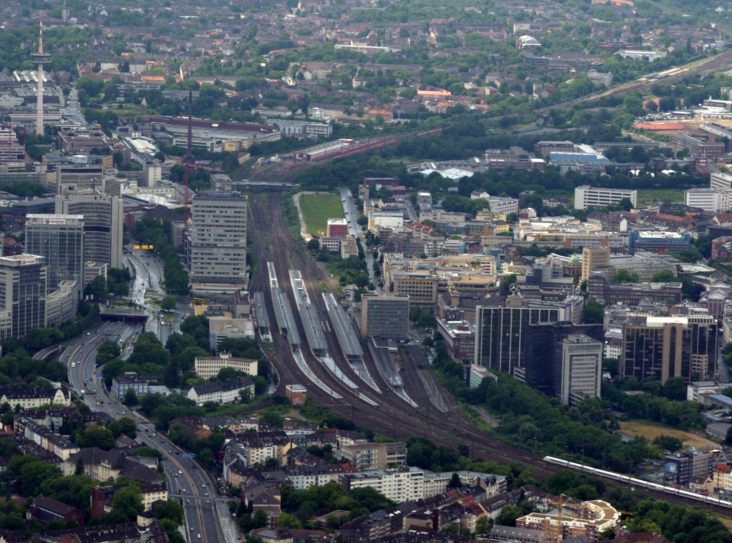 Essen main station, View to the west. on the left: Federal Motorway 40